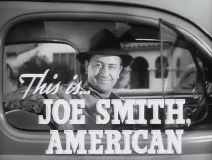 Robert Young in "Joe Smith, American", by Richard Thorpe (1942)